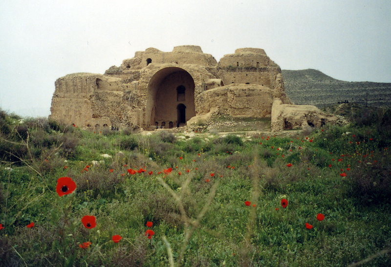 Palace of Ardeshir Babakan, the founder of Sasanid dynasty, in Firouzabad, Iran.